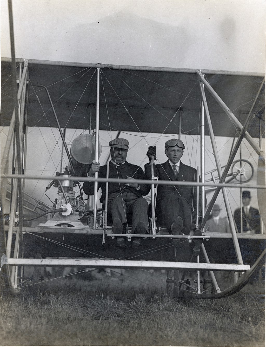 Theodore Roosevelt & Archibald Hoxsey in 1910, Kinloch Field in St. Louis, Missouri